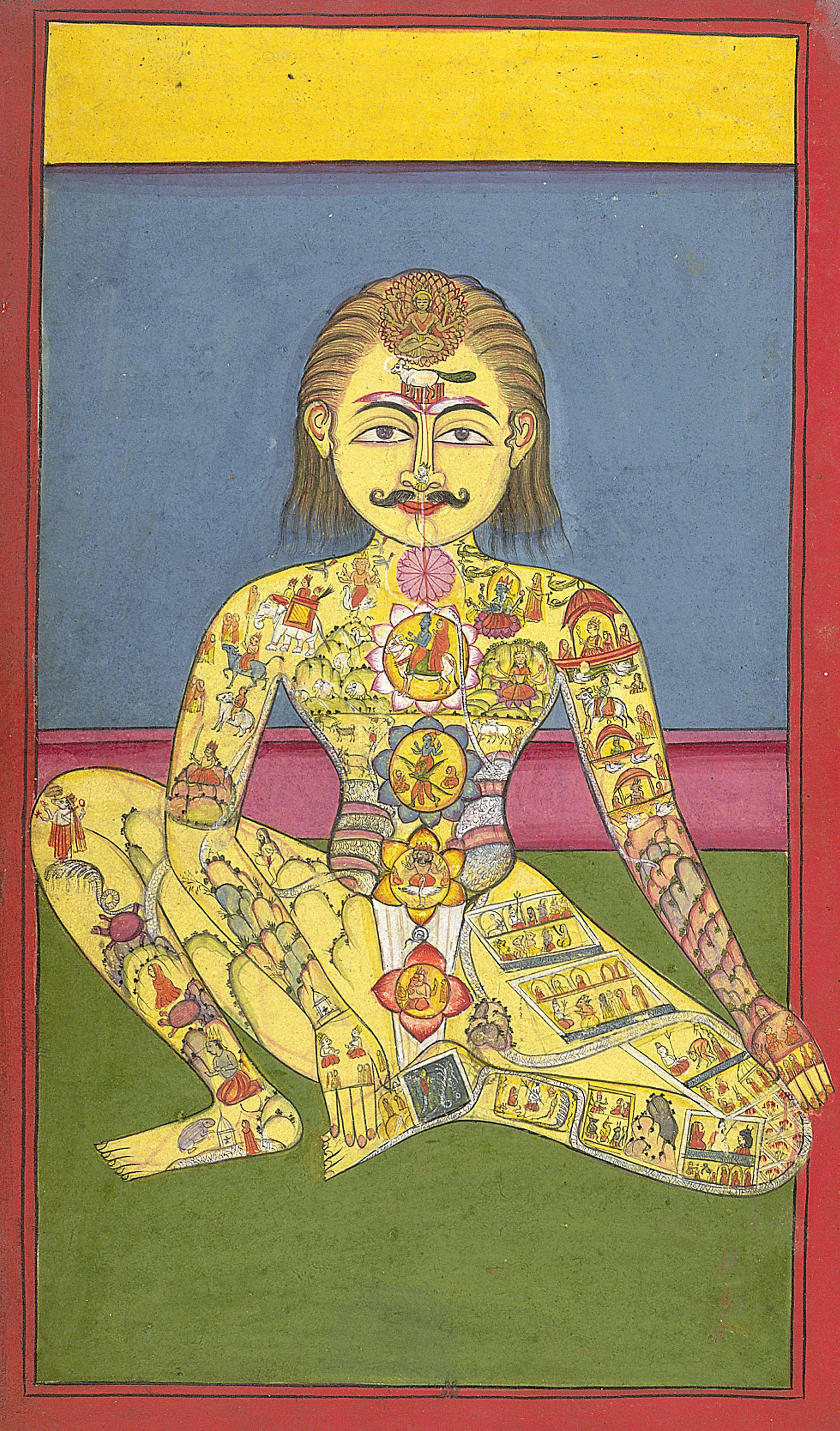 Sapta Chakra, from a Yoga manuscipt in Braj Bhasa lanaguage with 118 pages. 1899.